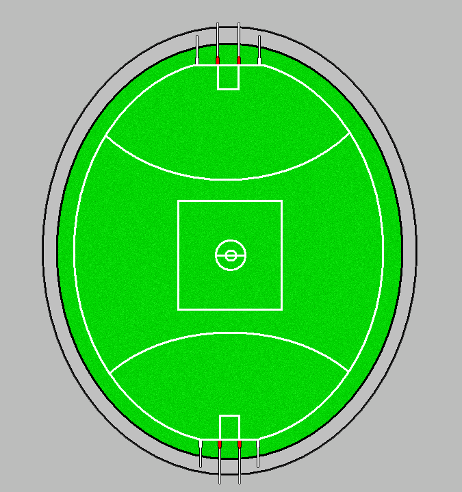 An Australian rules football playing field.